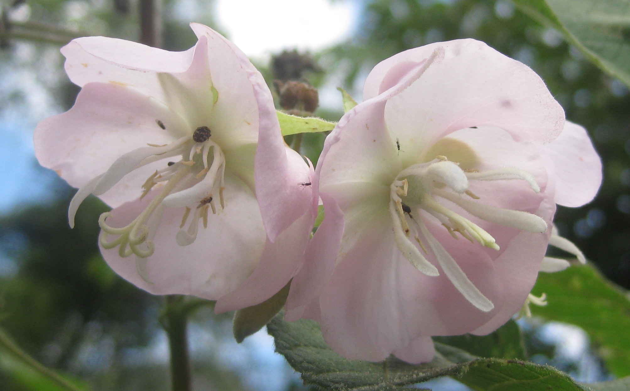 Pink Dombeya - Dombeya burgessiae (Sterculiaceae) in the undergrowth of evergreen forest on the road to Tsetserra in Mozambique.